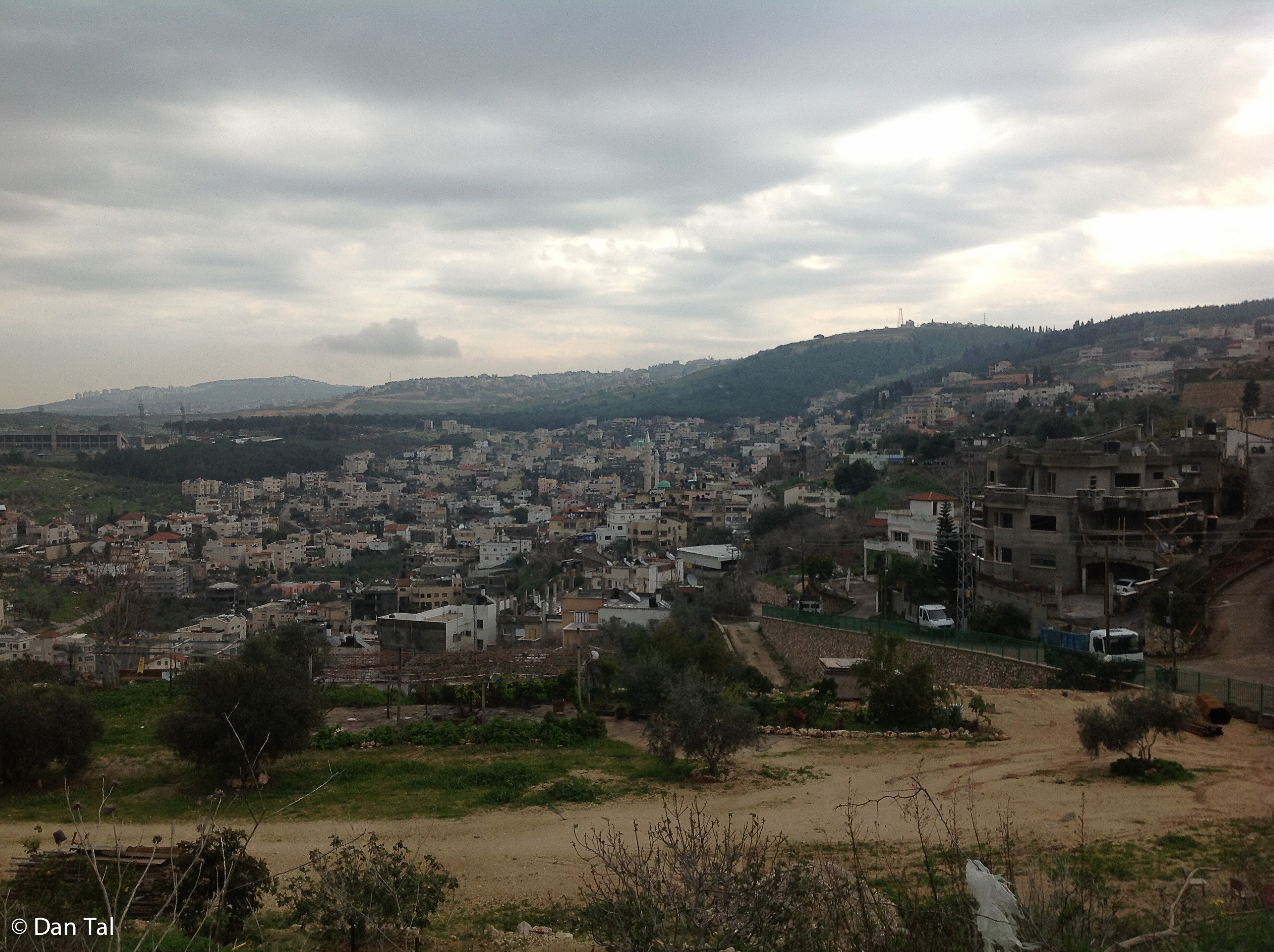 View from the south toward Ilut local council.